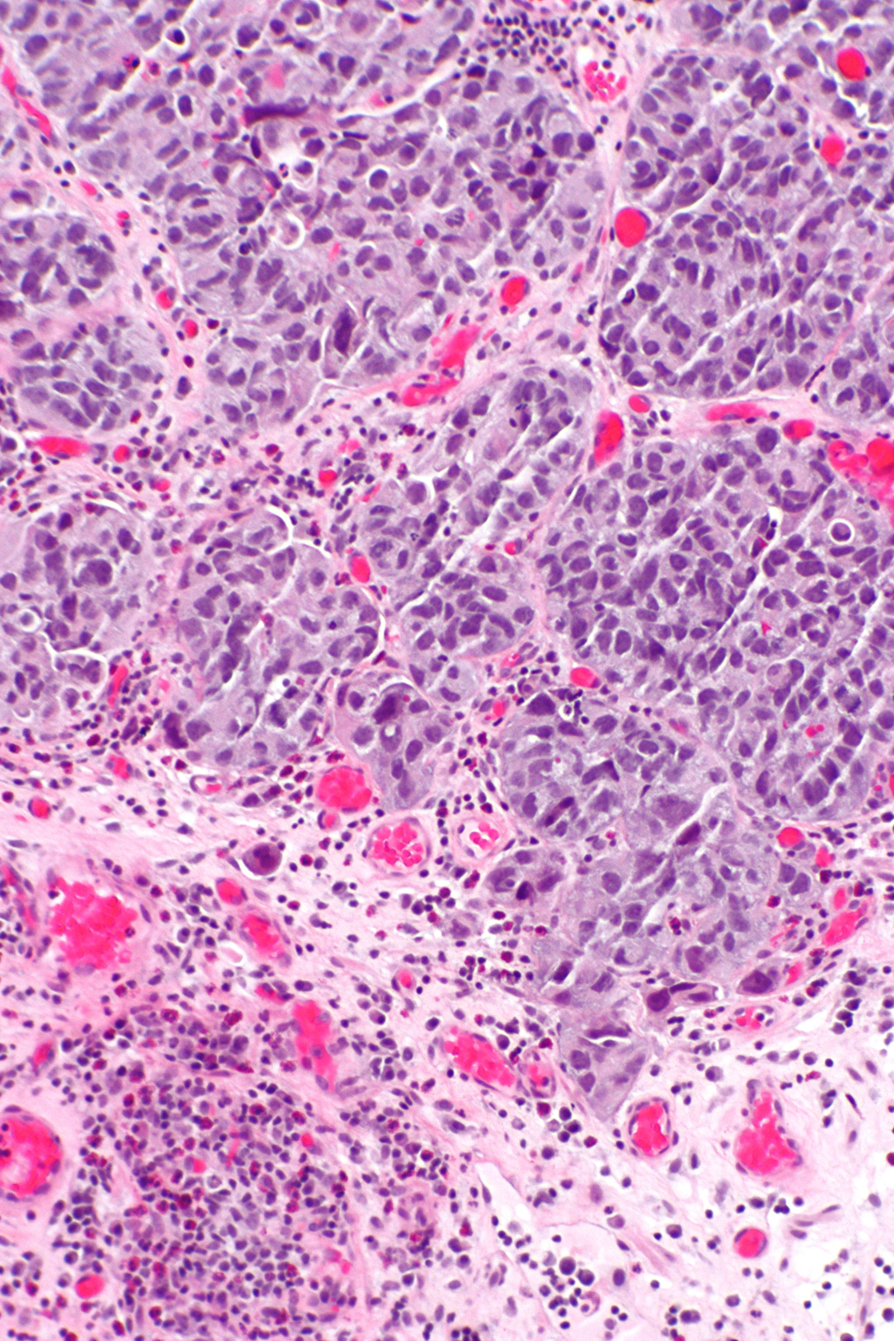 Micrograph of a high-grade papillary urothelial carcinoma. H&E stain. Related images HGPUC - low mag. HGPUC - intermed. mag. HGPUC - high mag. HGPUC - high mag. HGPUC - low mag. HGPUC - intermed. mag. HGPUC - high mag.